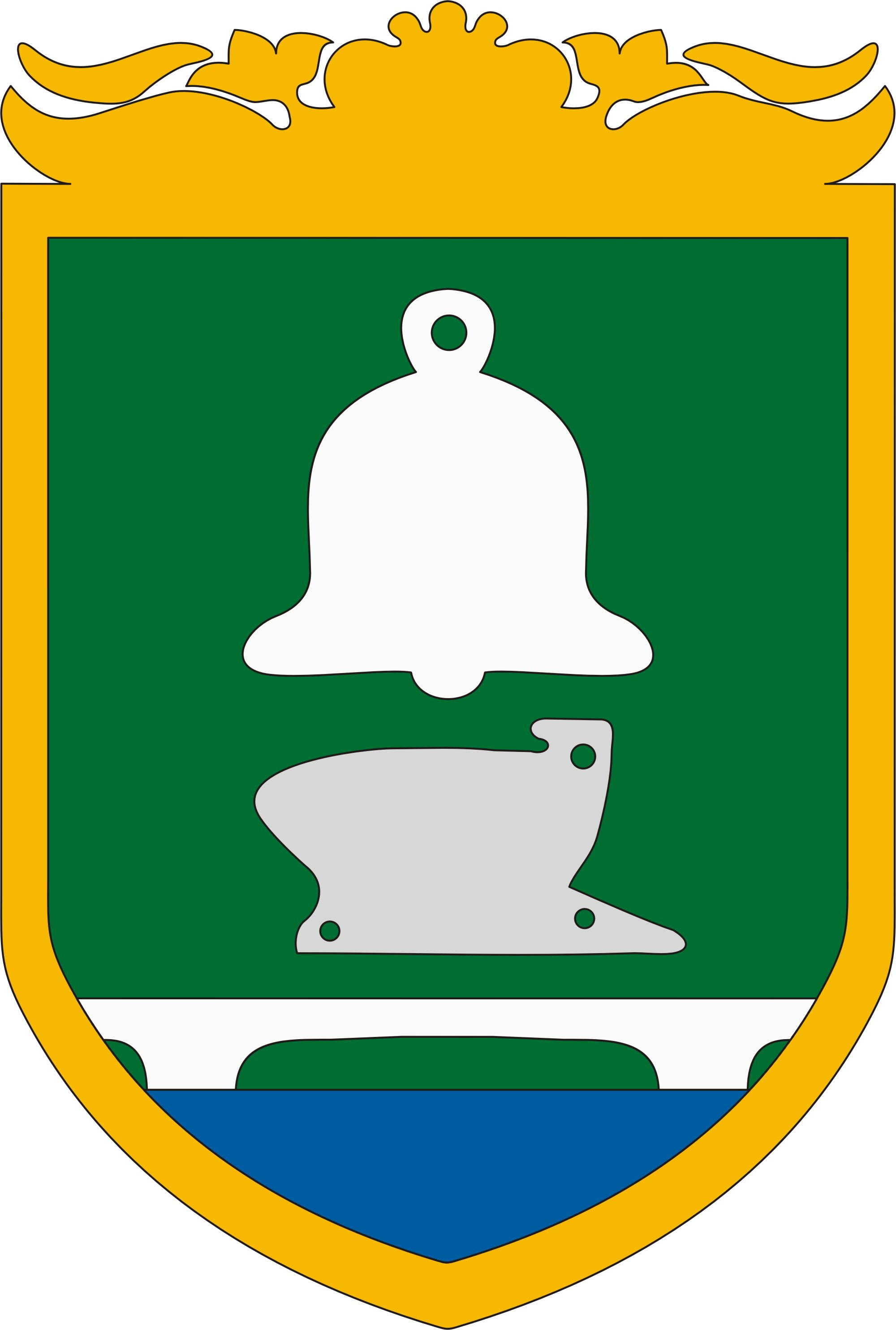 Coat of arms of Mezőkomárom, Hungary